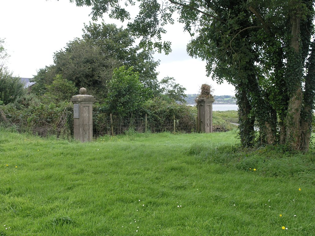 Old Naval Base Entrance